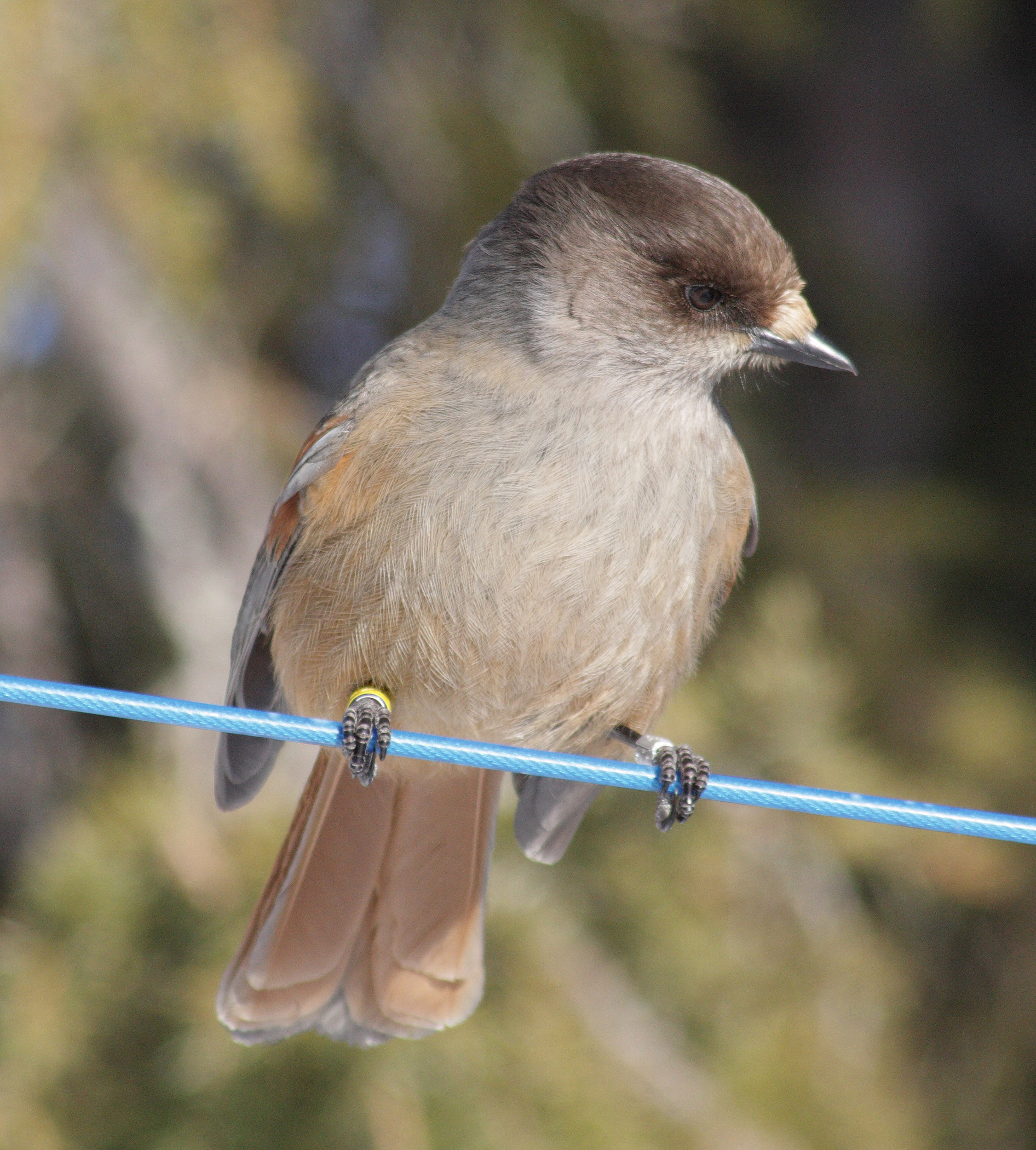 A ringed Siberian Jay (Perisoreus infaustus) in Kittilä, Finland.